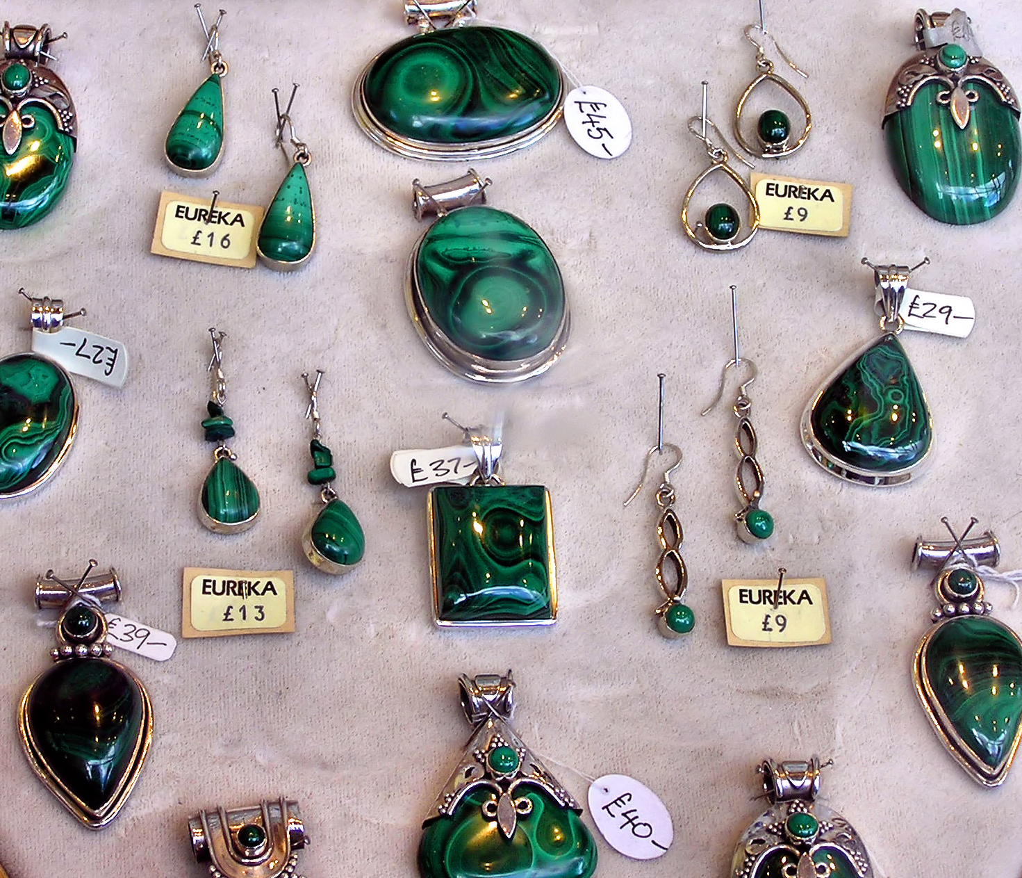 Malachite jewellery in a shop window in Bath, England. The prices are 2005 values, in UK pounds.